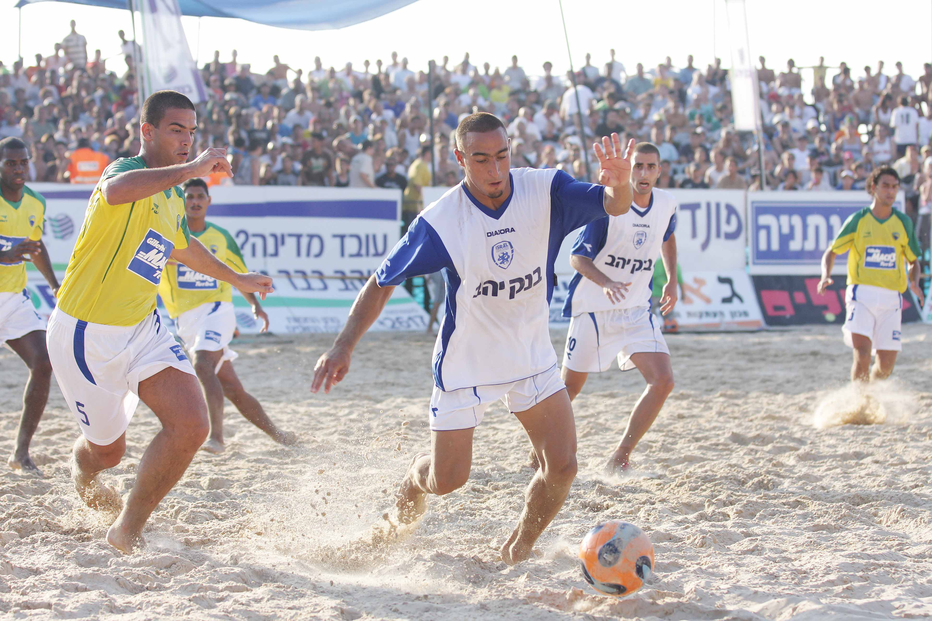 Photo from the friendly match (called the Solidarity Cup) between the Israeli and the Brazilian beach soccer teams, that occurred on 11 July 2008, at the Poleg beach in Netanya. The game was played to note 60 years of Israeli independence.